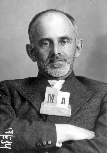 Scanned from Russian edition of Mandelstam's collected work. Mug shot by the NKVD after Mandelstam's first arrest.